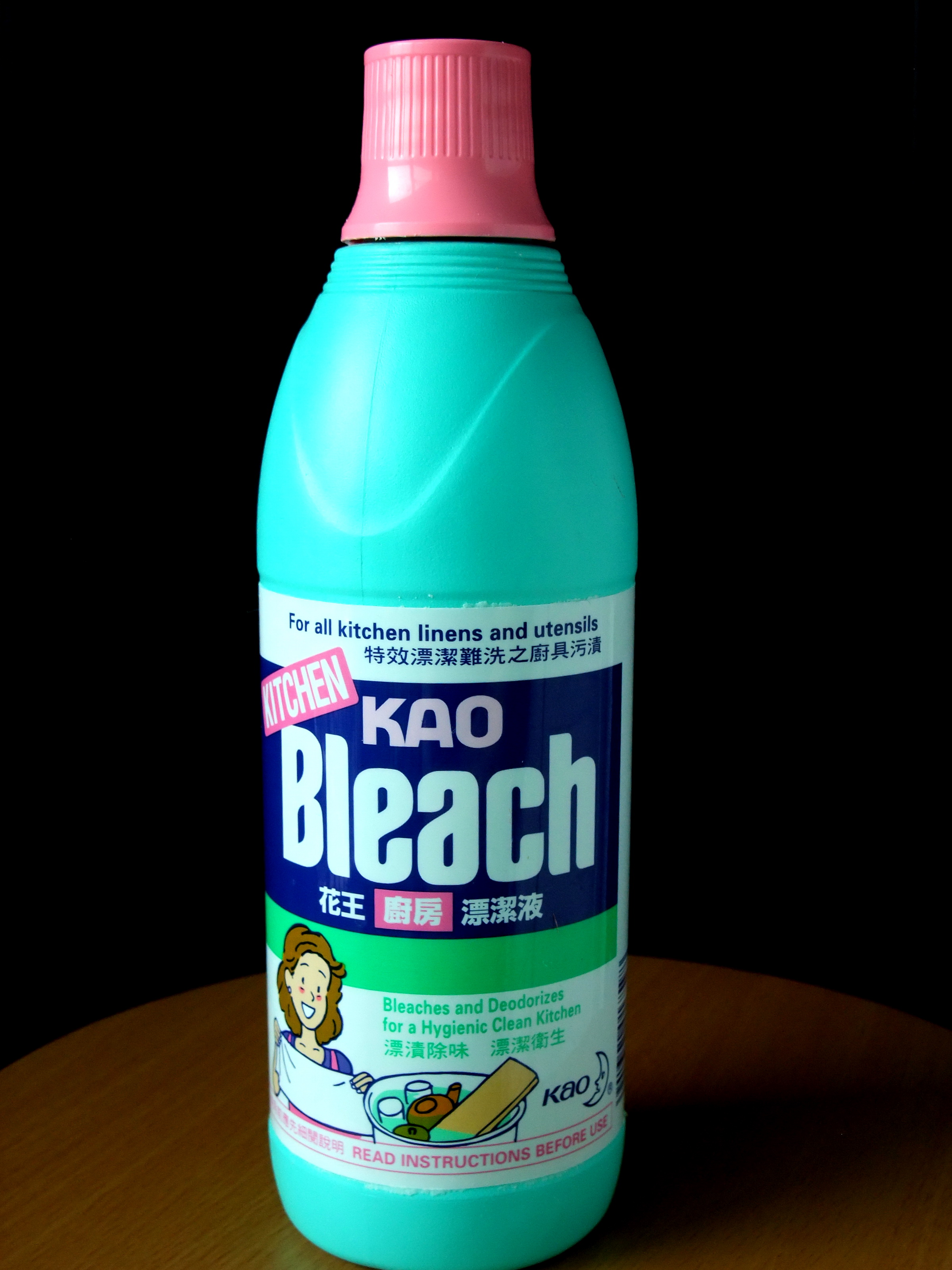 Kao kitchen bleach, 600ml bottle.